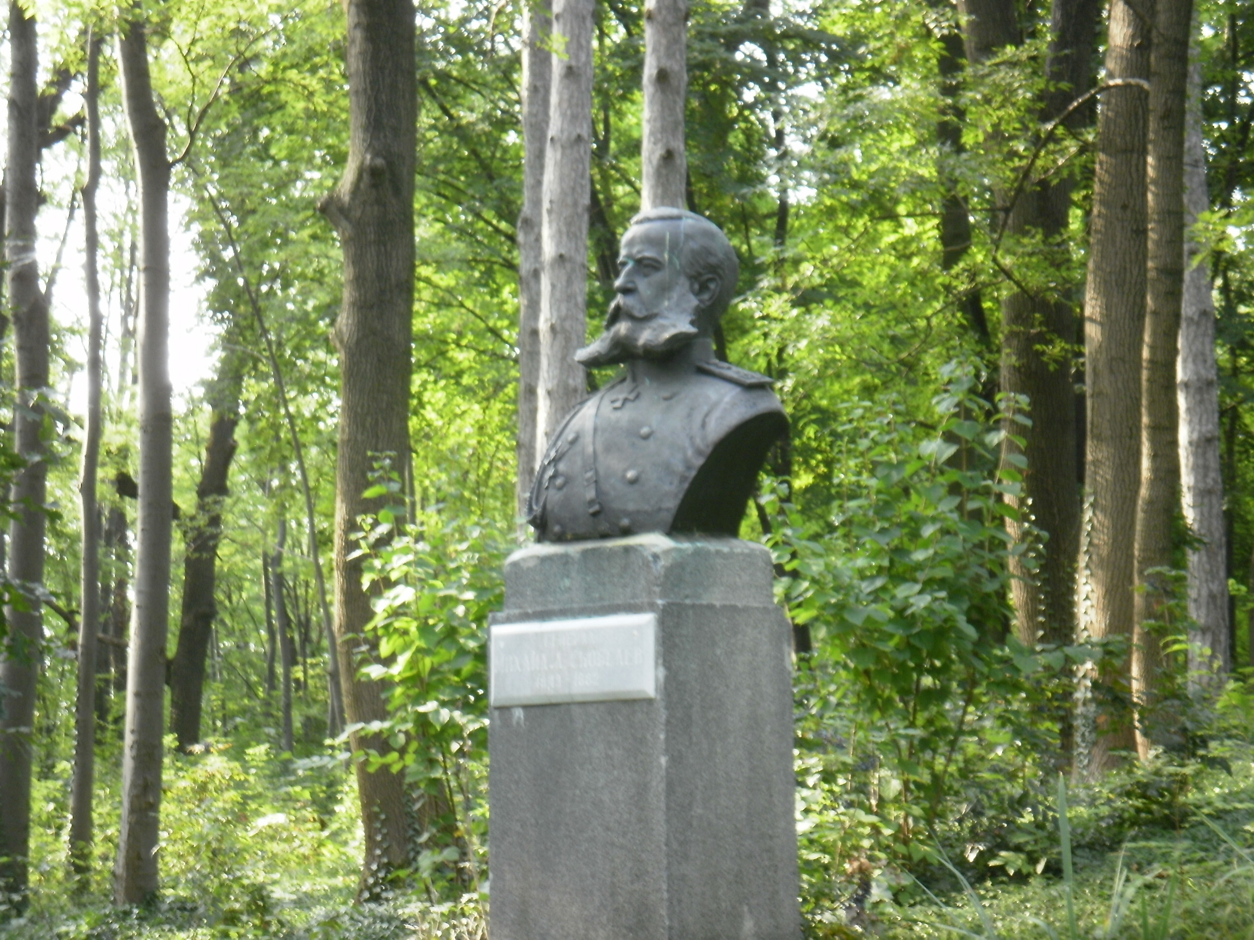 General Skobelev's bust in Park Scobelev, Pleven, Bulgaria.